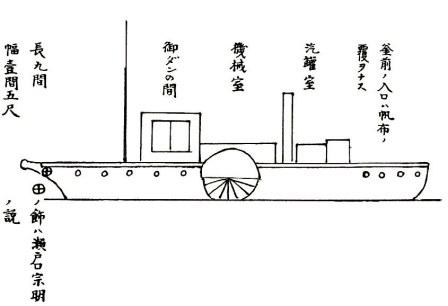 Unkou Maru is the first steamship built in Japan. It was built by Satsuma Domain in 1855. This sketch was made by Machida Ryouemon in Meiji period, but not so precise.